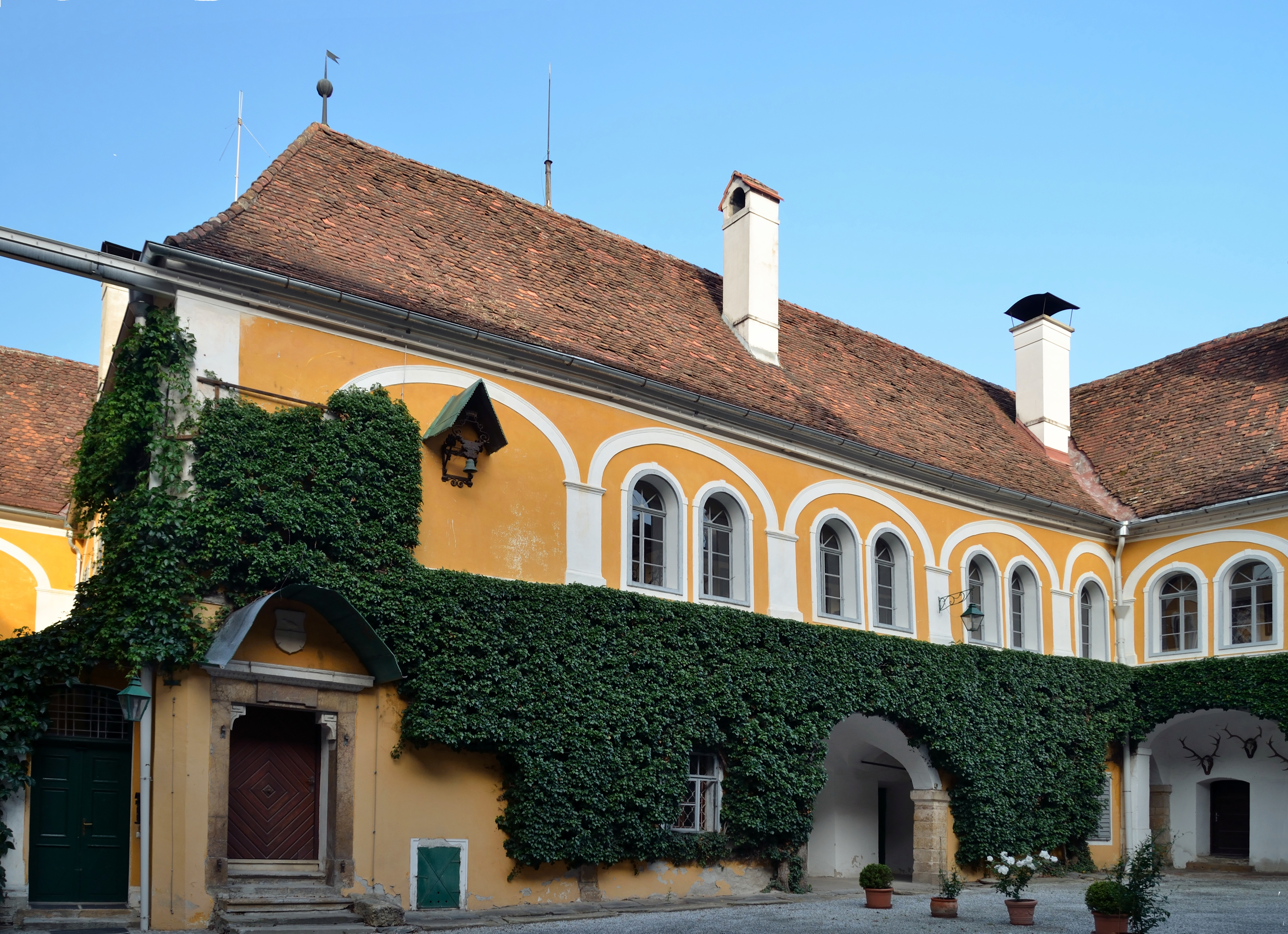 Schloss Birkenstein, a palace in Birkfeld, Styria, is protected as a cultural heritage monument.